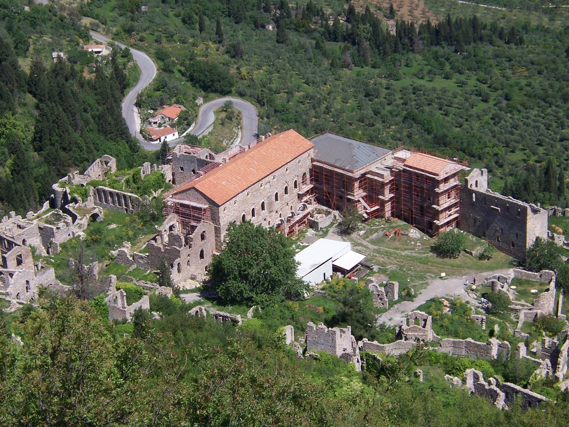 General view of the Palace of Mystras